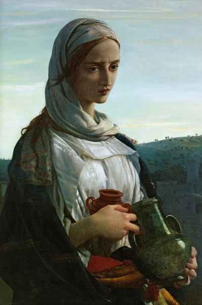 Mary Magdalene